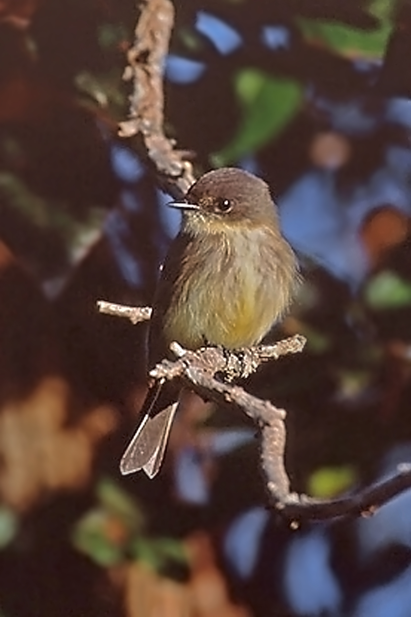 This is a member of the Tyrant Flycatcher family.